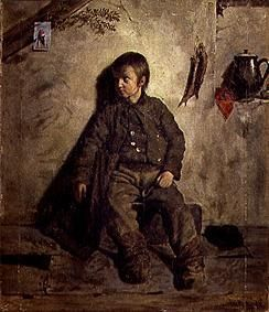 "Le Petit Ramoneur" ("The Little Chimney Sweep") by French painter and poet Auguste de Châtillon.